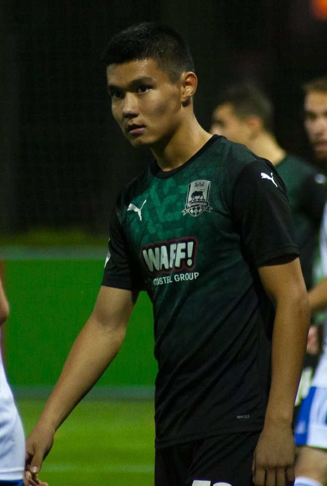 Rustam Khalnazarov with FC Krasnodar-2 in a game against FC Fakel Voronezh.